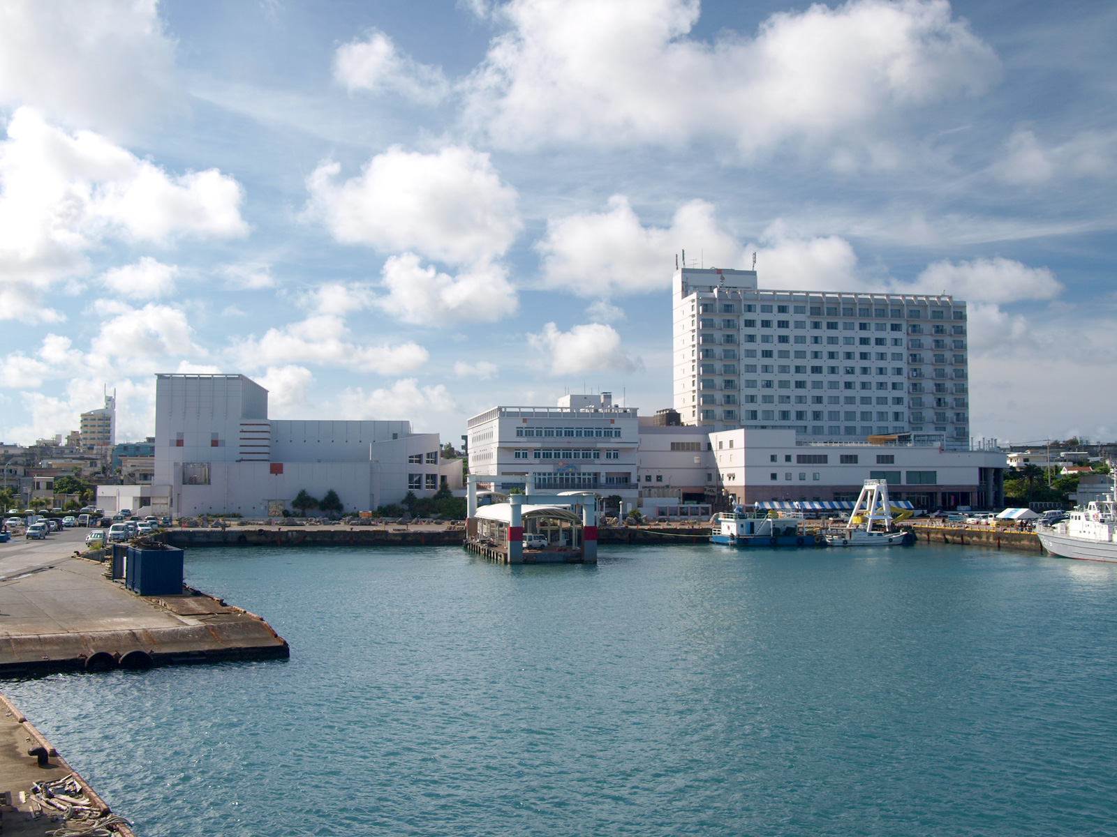 Hirara Port, Miyakojima, Okinawa, Japan